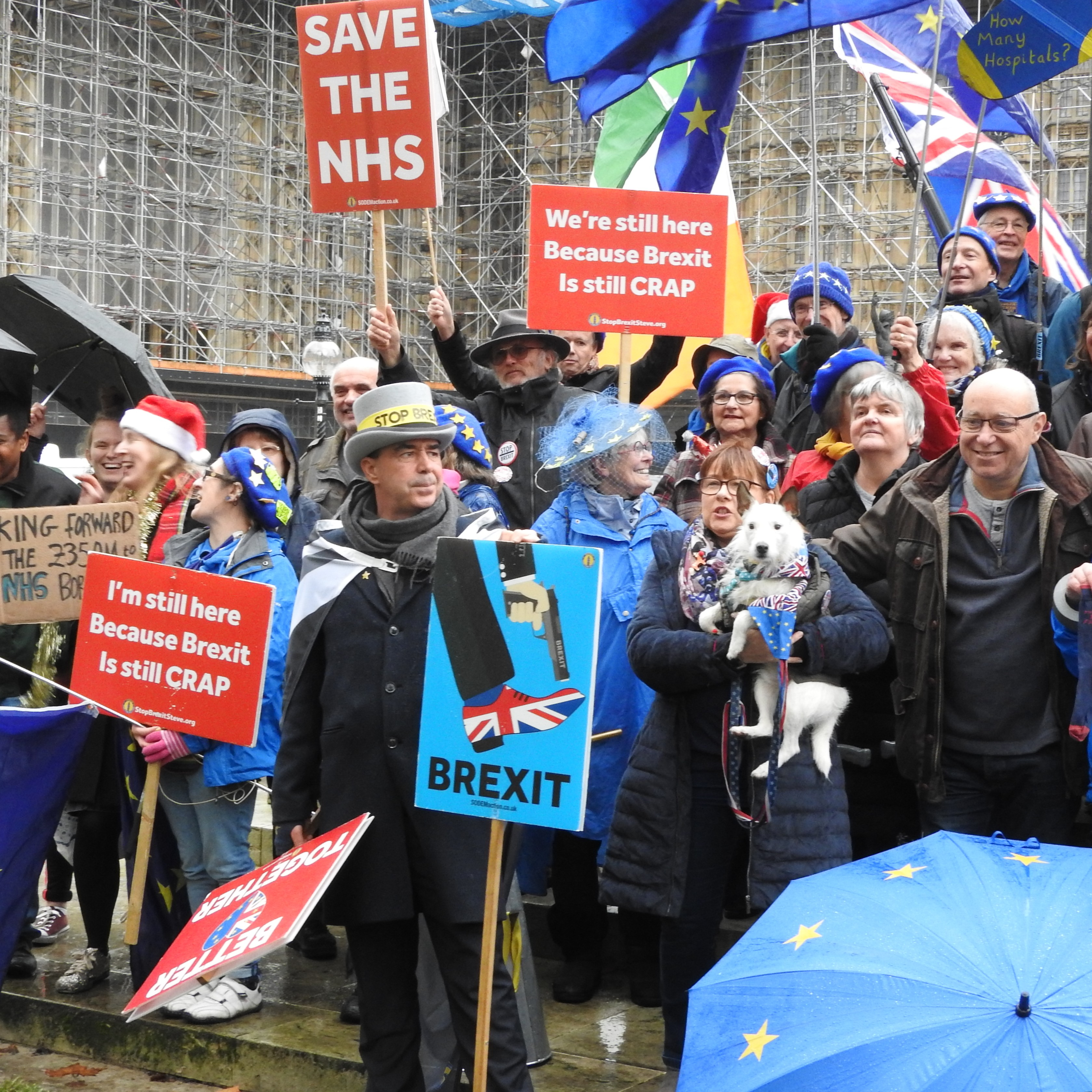 SODEM protest and celebration in Old Palace Yard Westminster after the December 2019 General Election, Steve Bray (activist) wore a grey version of his familiar costume comenting on the result."The lies have it"